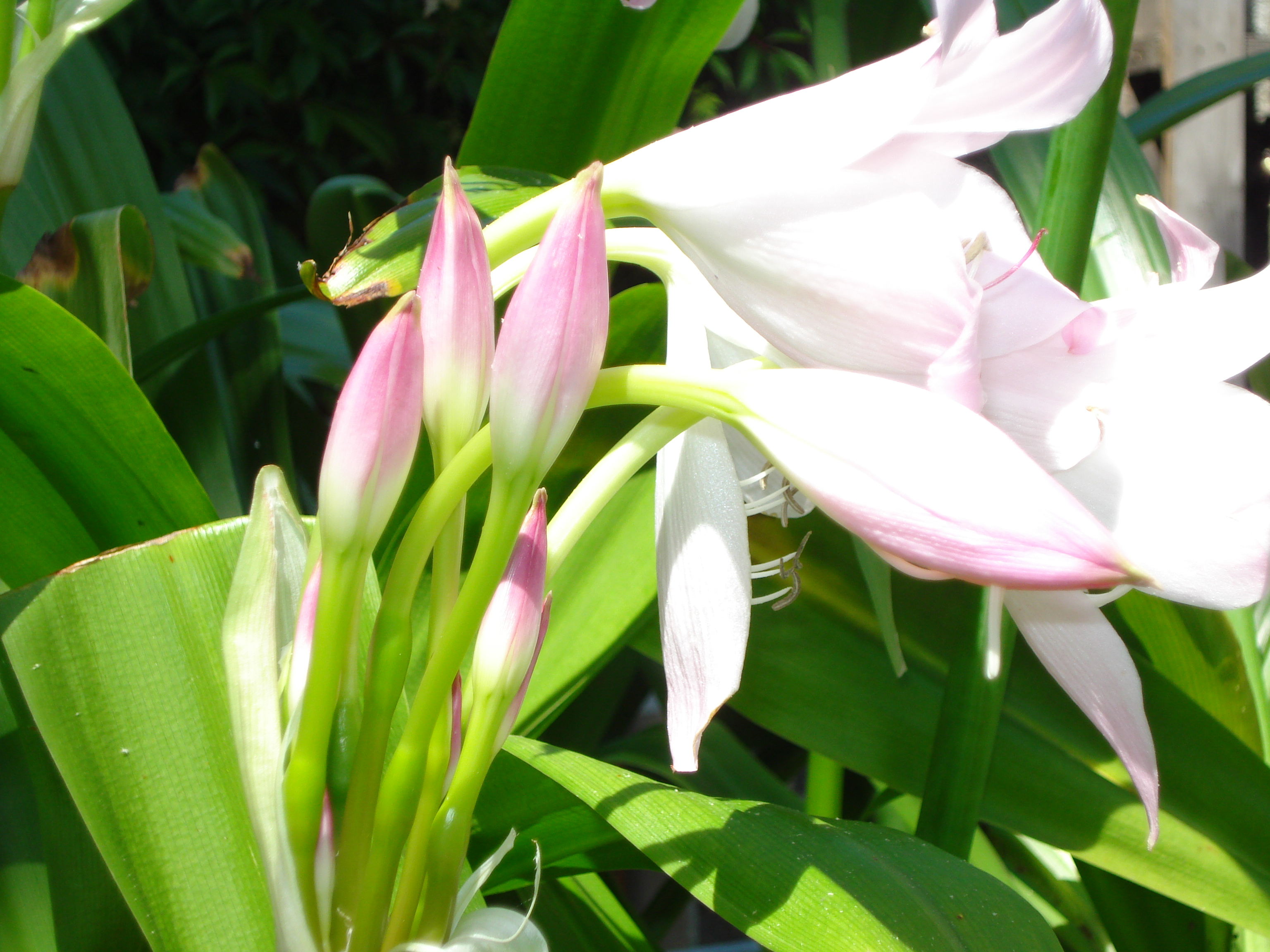 upto 15 single flowers